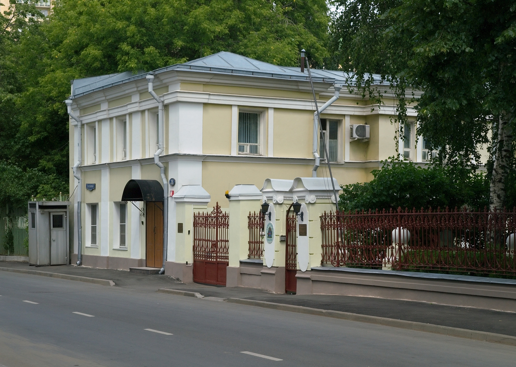 Embassy of Iceland in Moscow (Khlebny Lane, 28).